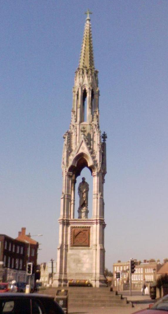 Clarkson Memorial, Wisbech. Sides of original photo removed.